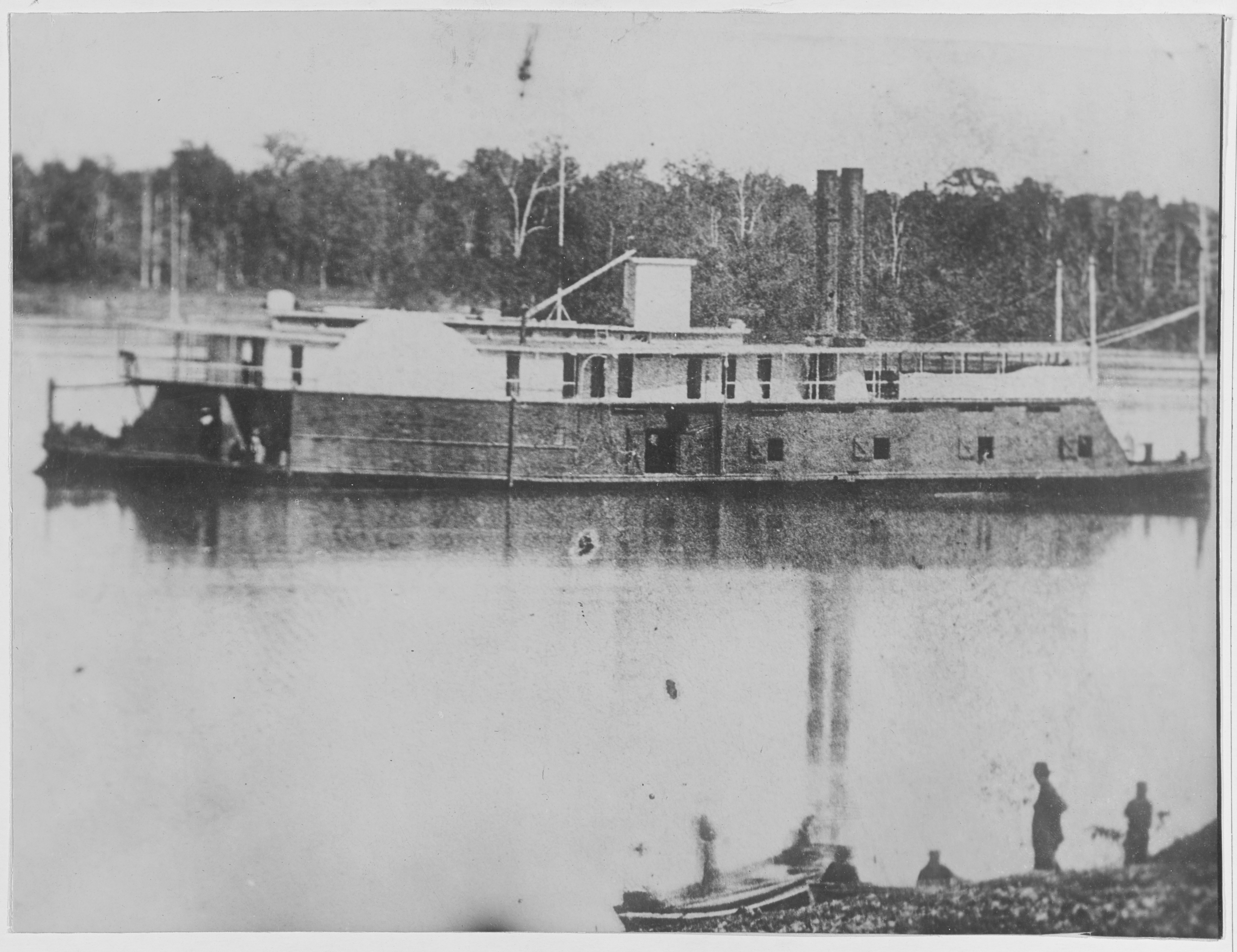 USS General Sherman (1864-1865, "Tinclad" # 60) USS General Sherman, a 187-ton side-wheel "tinclad" river gunboat, was built in 1864 at Chattanooga, Tennessee, for the War Department. Turned over to the Navy and commissioned in July 1864, she spent most of her service on the Upper Tennessee River. In December 1864, while operating in support of U.S. Army forces, General Sherman engaged Confederate troops at Decatur, Alabama. She was returned to the War Department in June 1865. This page features possibly the only view of USS General Sherman.